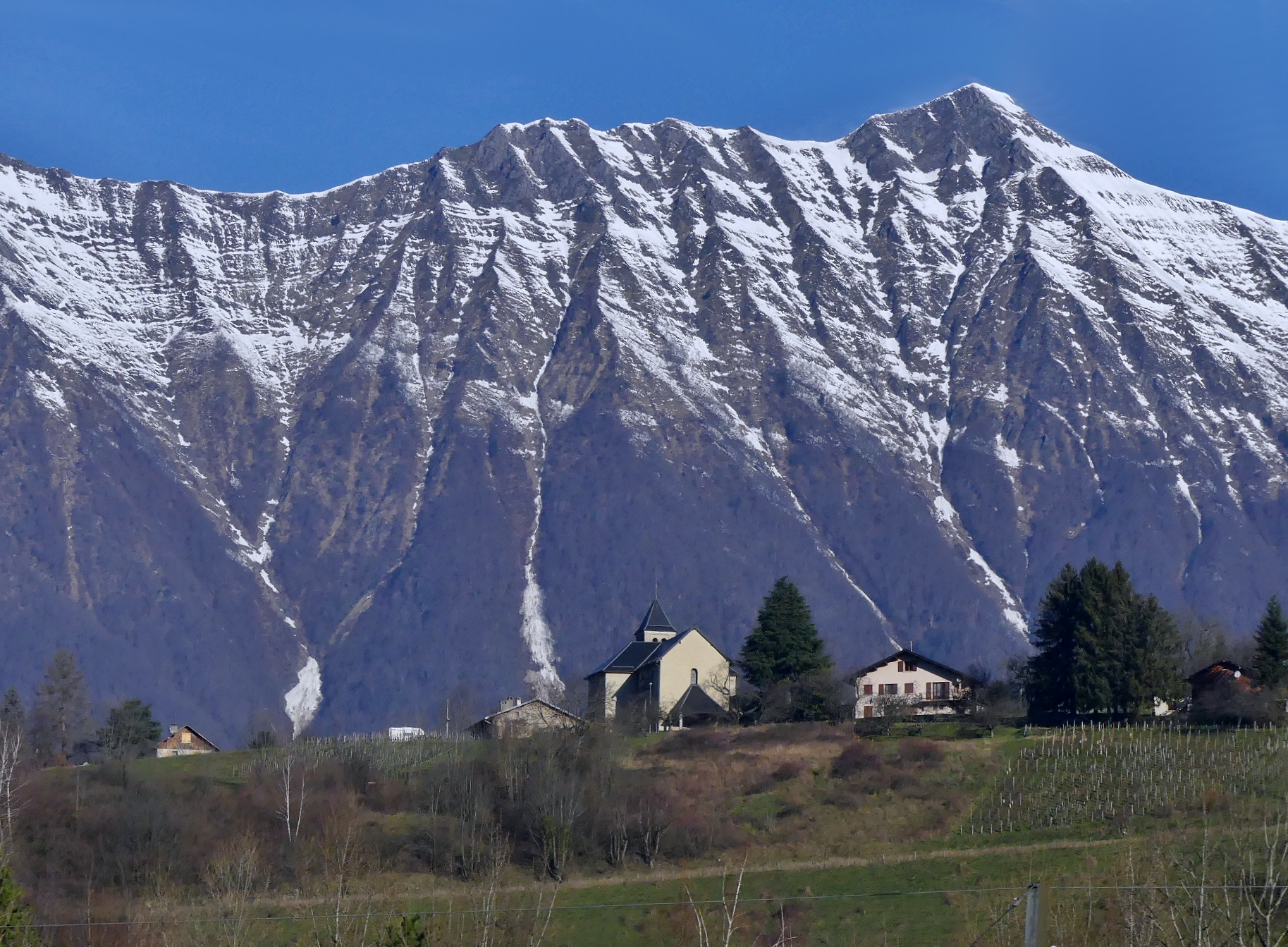 Sight, from the Maurienne valley extremity, of Aiton church and part of the village, with the snow-covered Arclusaz mountain at the background, in Savoie, France.